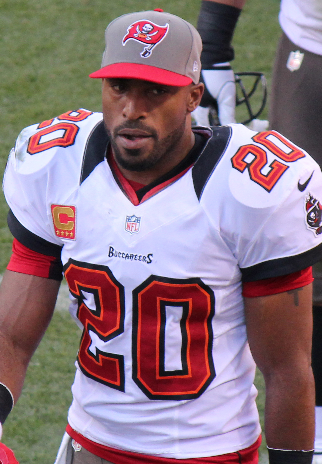 Ronde Barber, a player on the National Football League.